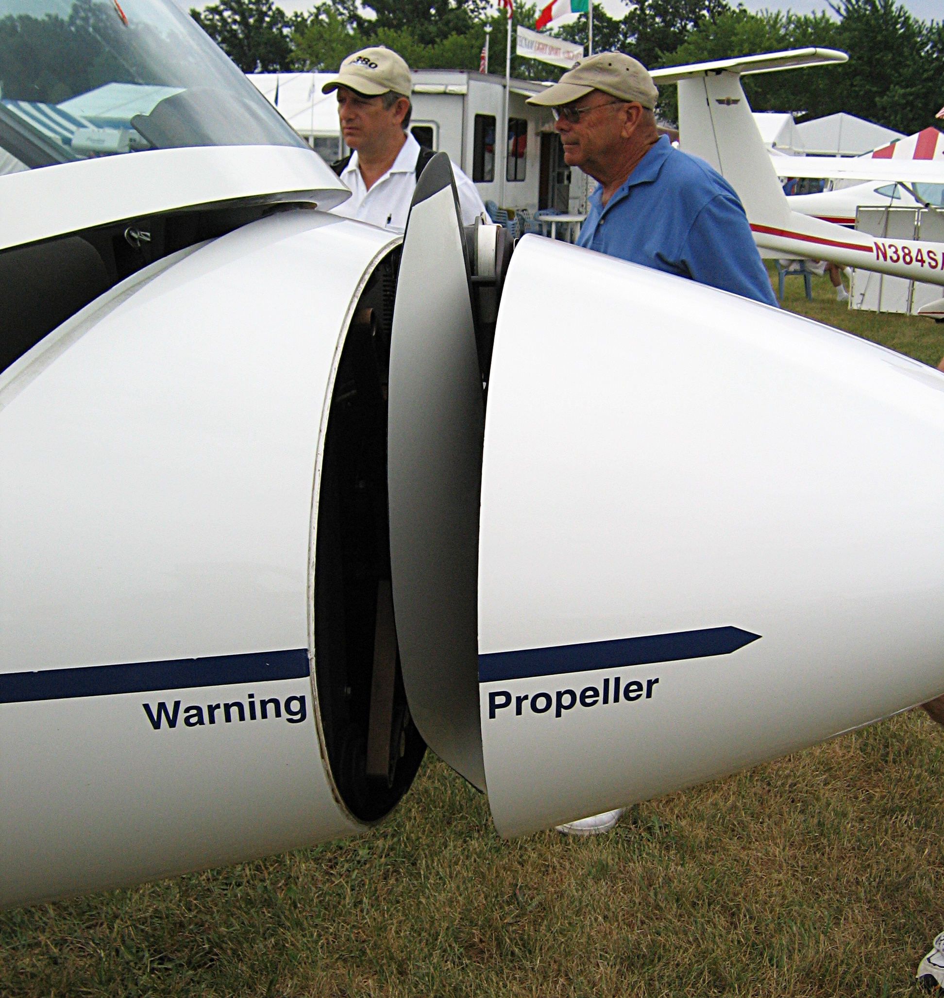 The Stemme motorglider's fancy retractable prop. When the engine, which is behind the cockpit, is shut down the prop folds and the nose cone slides back, leaving a nice clean nose. Very nice. Very expensive.